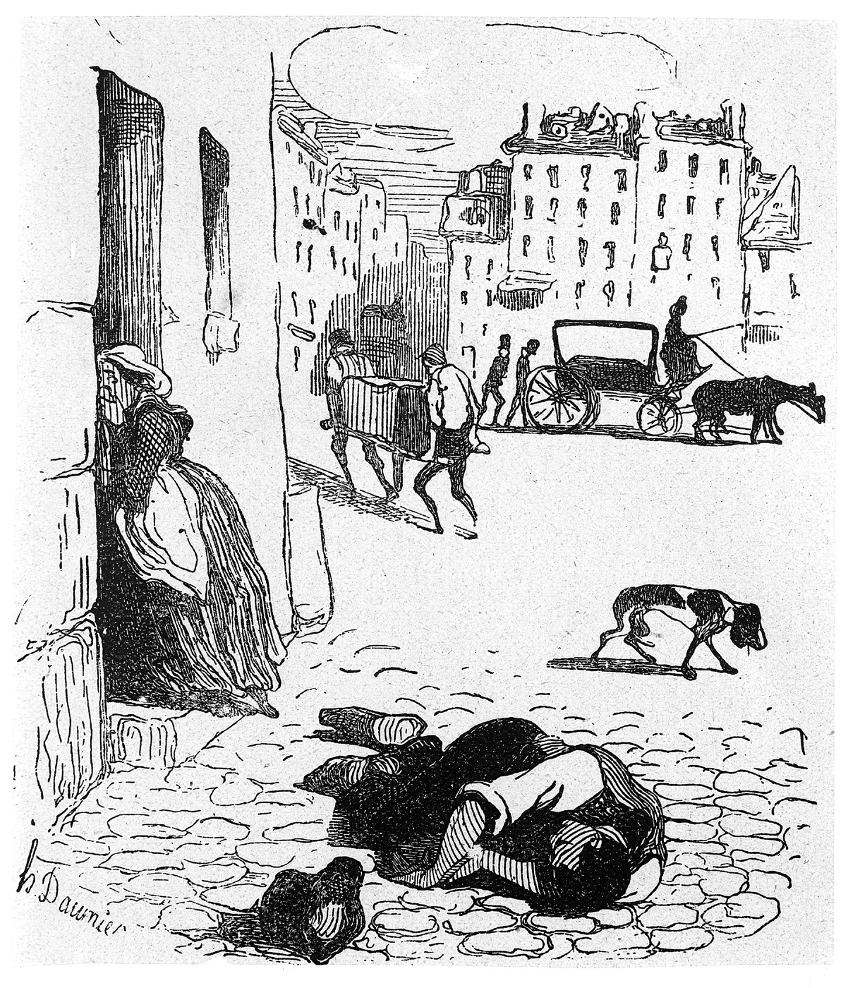 "Chut! Il souffre horriblement du cholera." Wellcome Images Keywords: Cabanes; Cholera; Grandville; 19th century; France